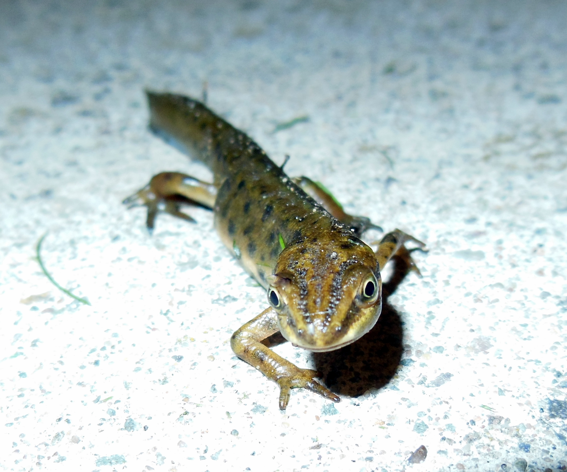 Common Newt, Smooth Newt